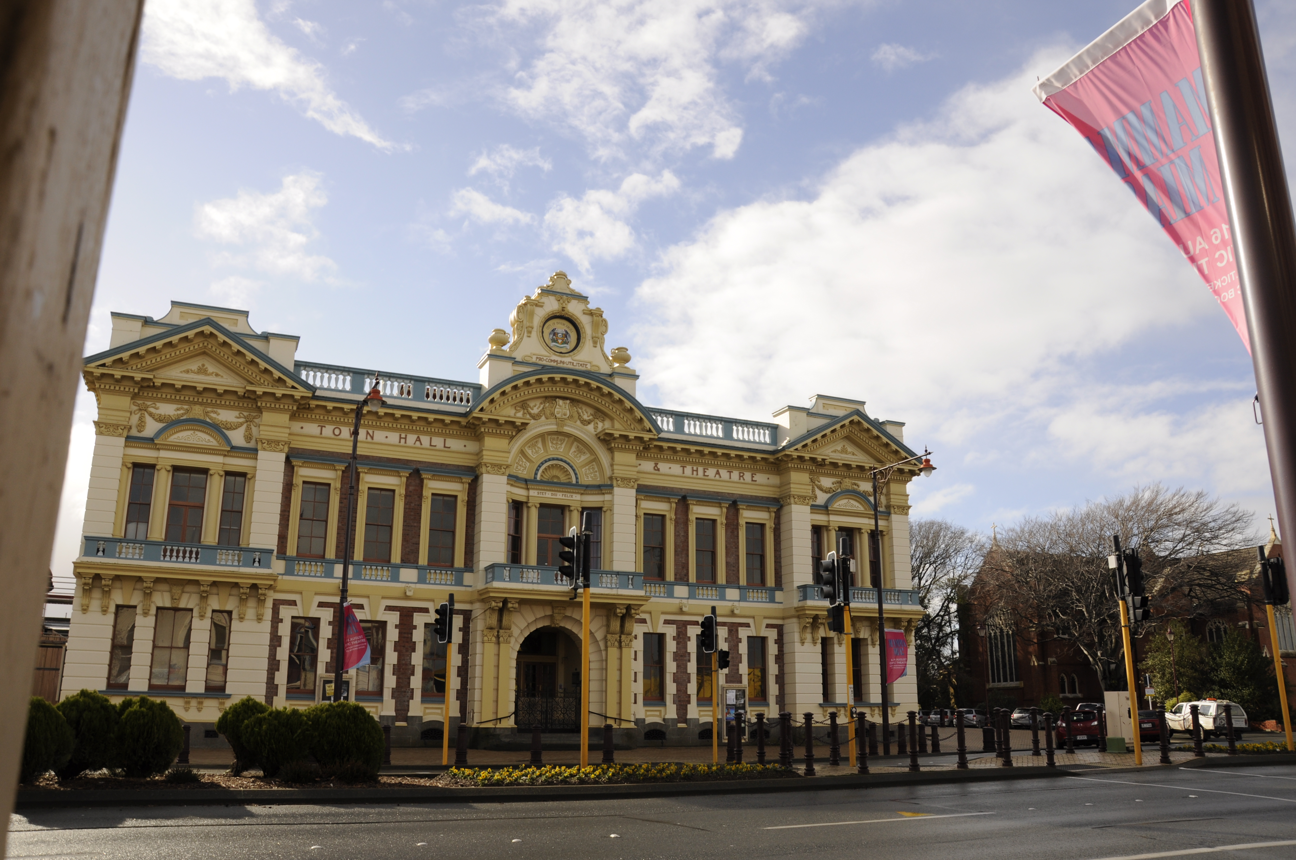 Outside the Civic Theatre